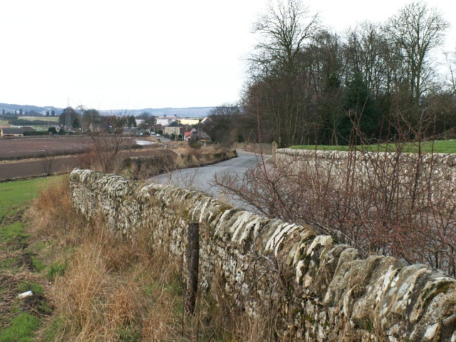 Cupar Muir from the edge of Cupar. Looking west along the minor road between Springfield and Cupar. Cupar Muir in the distance